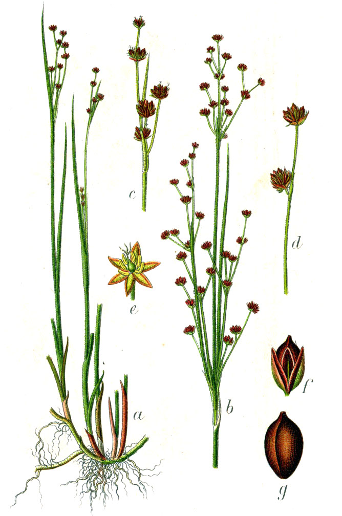 Juncus alpinus Vill., syn. Juncus alpinoarticulatus subsp. alpinoarticulatus Notes: Juncus alpinoarticulatus Chaix (1785), Juncus alpinus Vill. (1787), one of them is ill. Original Caption Kleinblumige Knotenbinse, Juncus alpinus